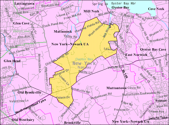 U.S. Census 2000 reference map for Upper Brookville, New York